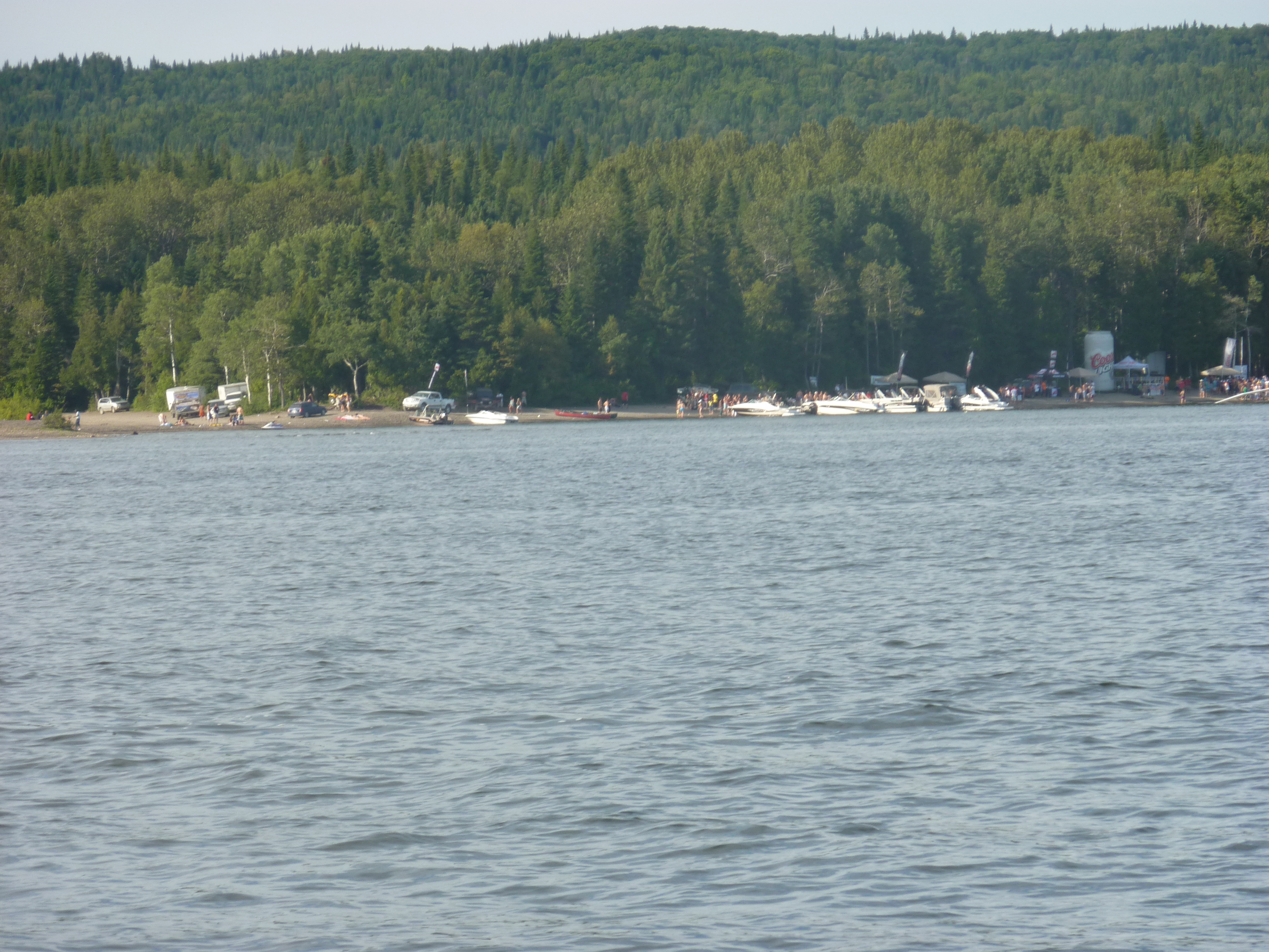 Amqui's Pointe fine Beach on Matapédia Lake during 2010 XFest